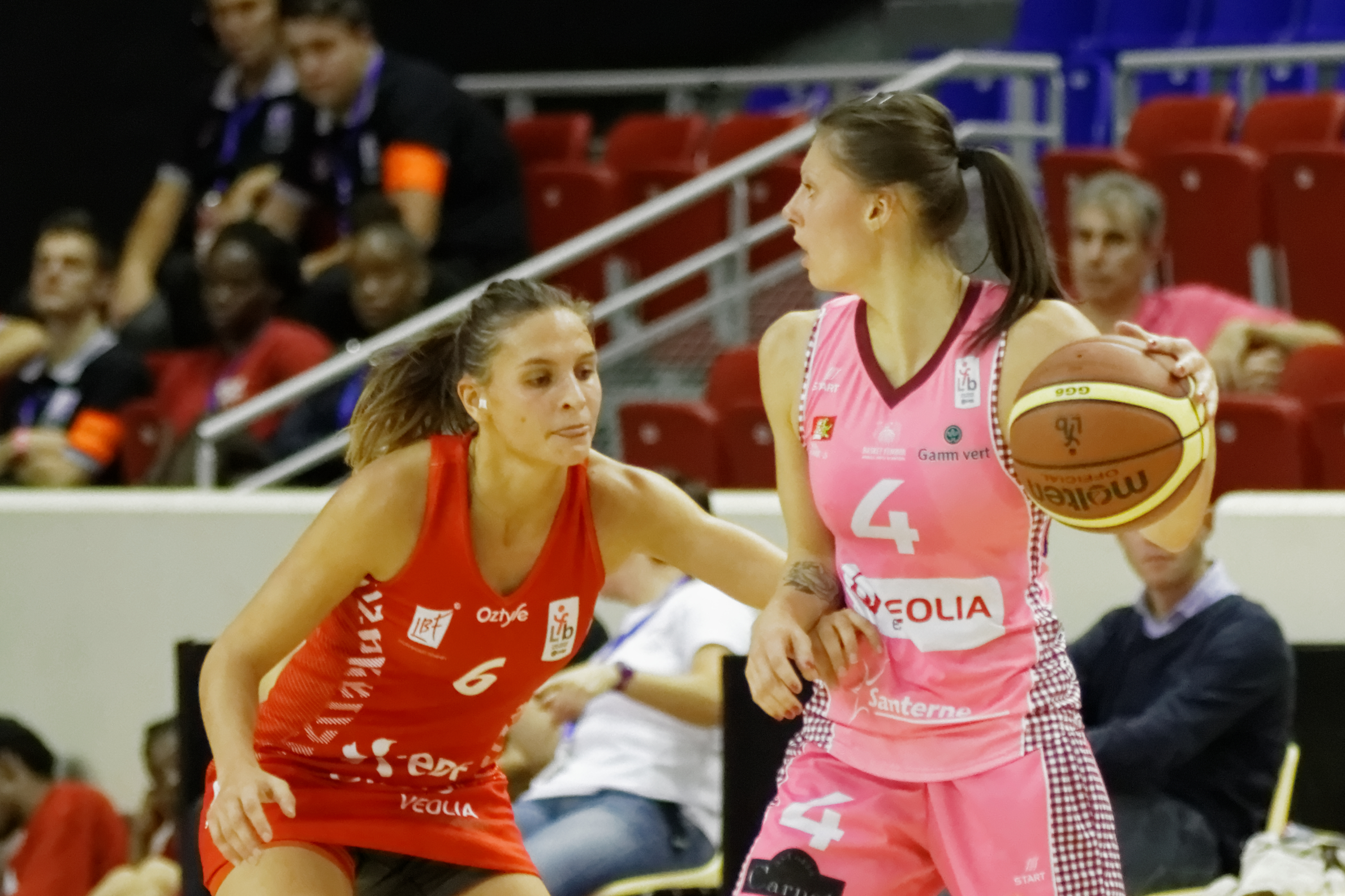 Open LFB, Arras-Lyon, October 6th, 2013.